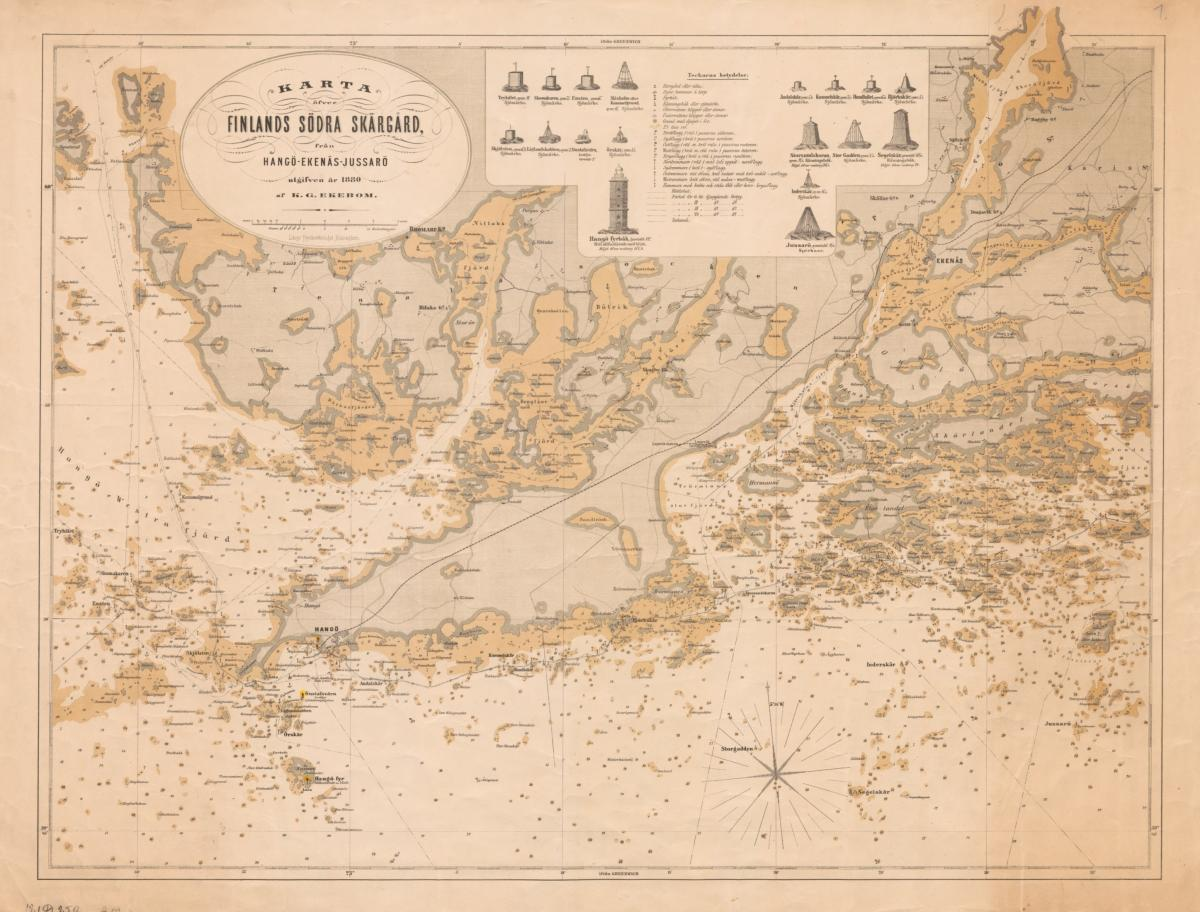 Map of the Southern coast of Finland from 1880.